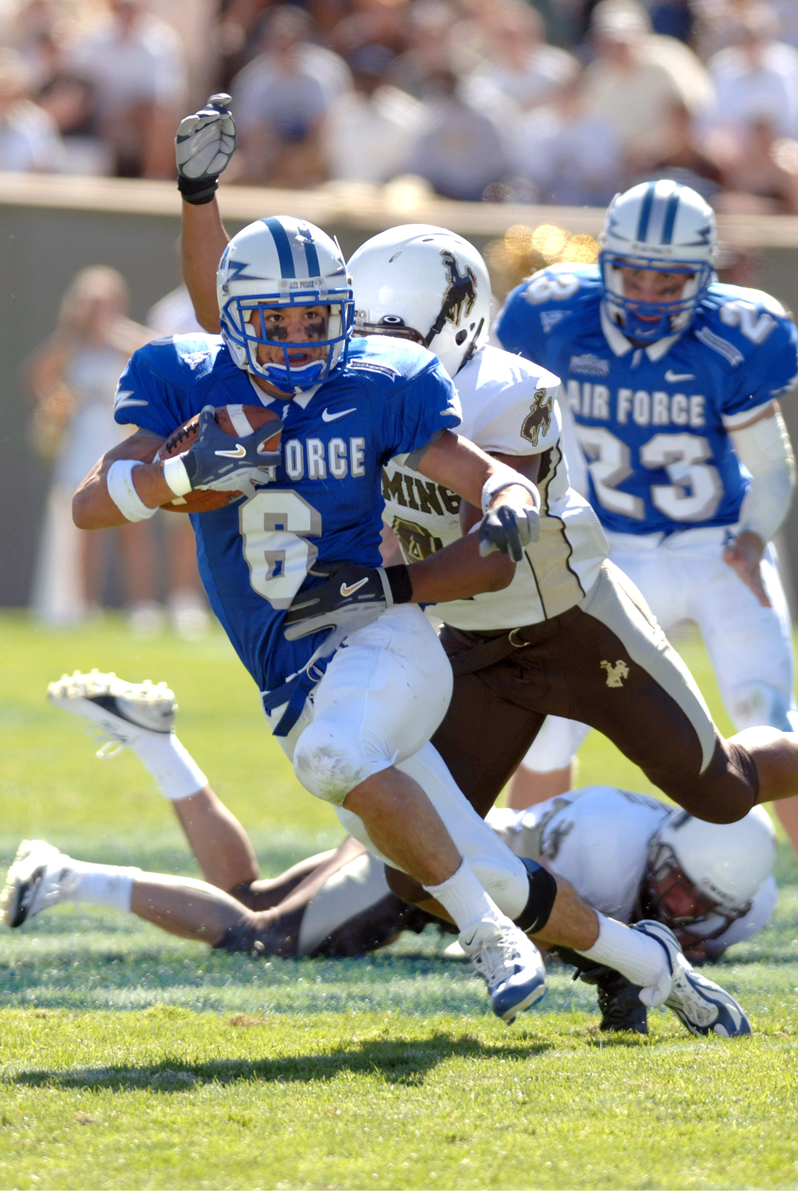 Air Force Academy's junior cornerback Chris Sutton returns a punt against Wyoming in a college football game on September 17, 2005 in Colorado Springs, Colorado. box score